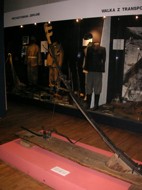 A catapult constructed during the Warsaw Uprising for launching bottles with gasoline over the walls and buildings. It was serially produced from leaf springs